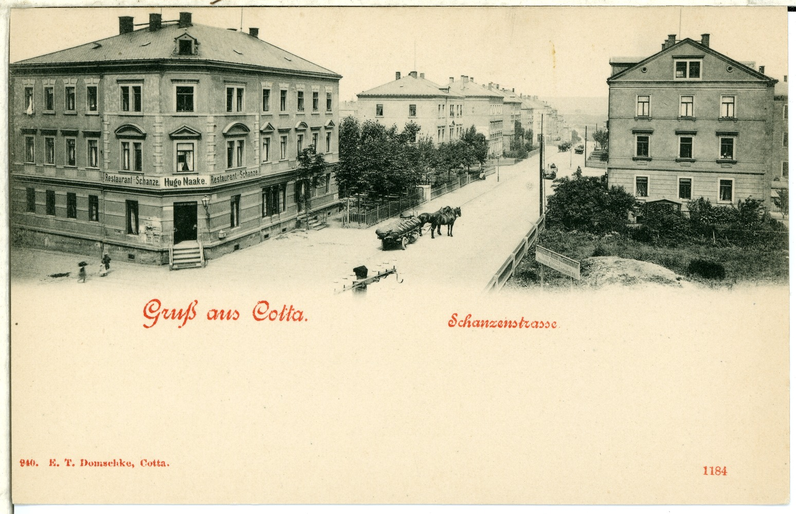 This postcard is from publisher Brück & Sohn in Meißen ( This postcard has a unique number 01184 and is available in a higher resolution at the publisher. This images was uploaded in a cooperation project between Wikipedians and the publisher.